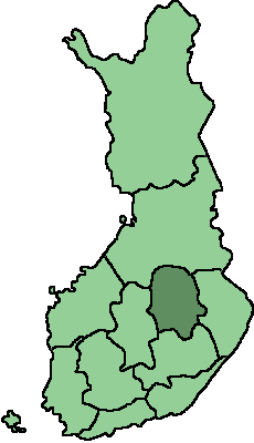 The Finnish province of Kuopio (Kuopion lääni) as of 1997